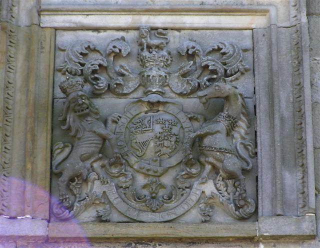 Crest of arms, Lifford Courthouse. It is located here 1303993